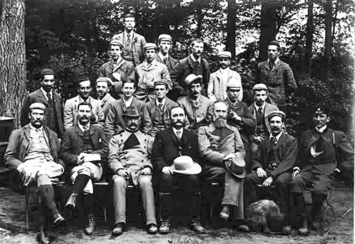 Sir William Philipp Daniel Schlich (February 28, 1840 - September 28, 1925) Dr. William Schlich, in the middle of the seated row, at the time dean of the forestry school at Oxford, with students of the school on a visit to the forests of Saxony in the year 1892. To his right and left, Saxon foresters. Also seated in the front row, Indian foresters on European leave. At the extreme right, Carl Alwin Schenck in the uniform of a German "forst accessist."